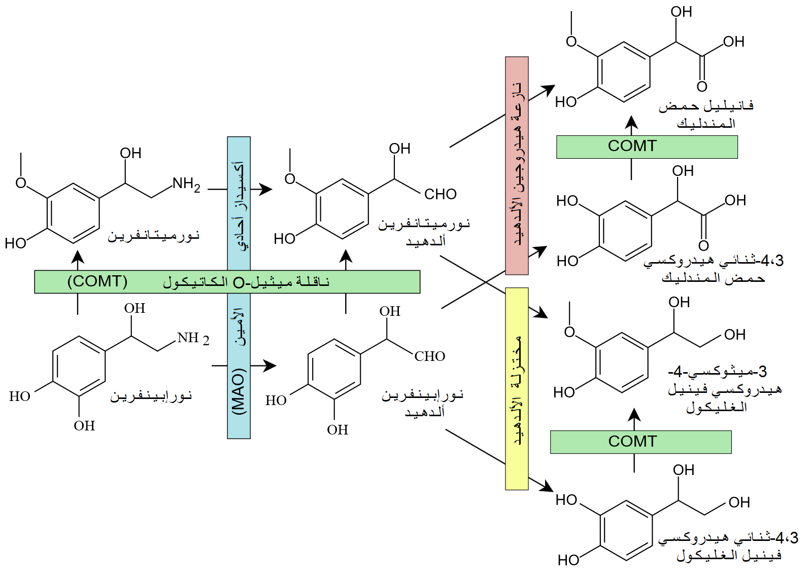 Breakdown of norepinephrine.